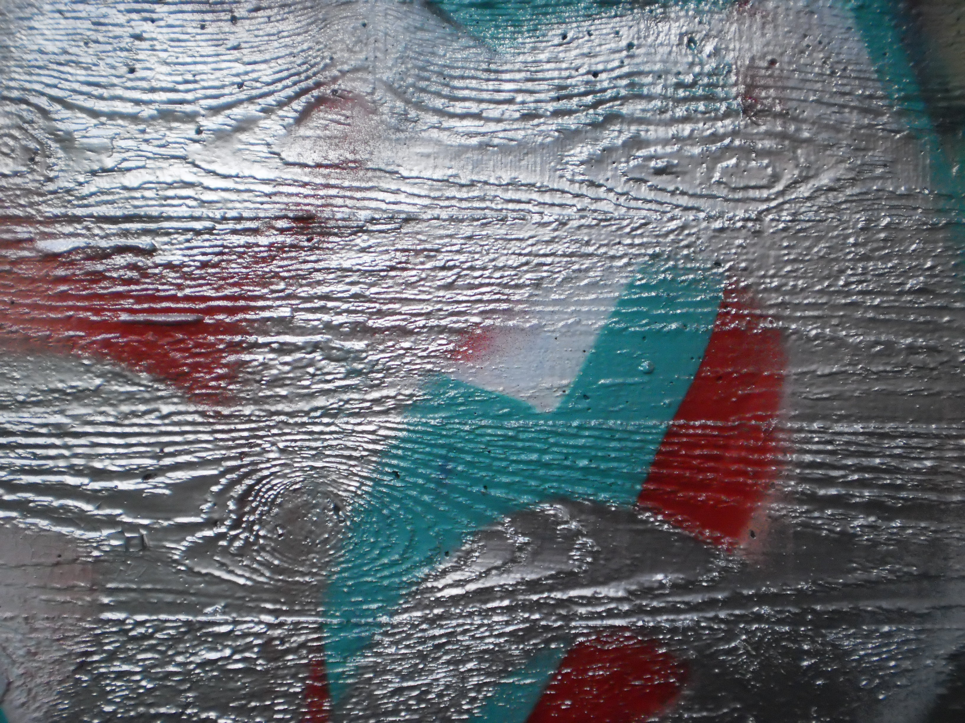 Light reflections of wood grain texture on a concrete wall, details of a graffiti with reflections of silver, blue and red colour in town Marburg (Germany), photo taken June 2017 in Hesse.